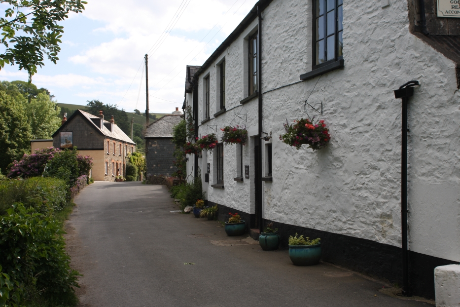 The Stag Hunters Inn, Brendon, near to Brendon, Devon, Great Britain.